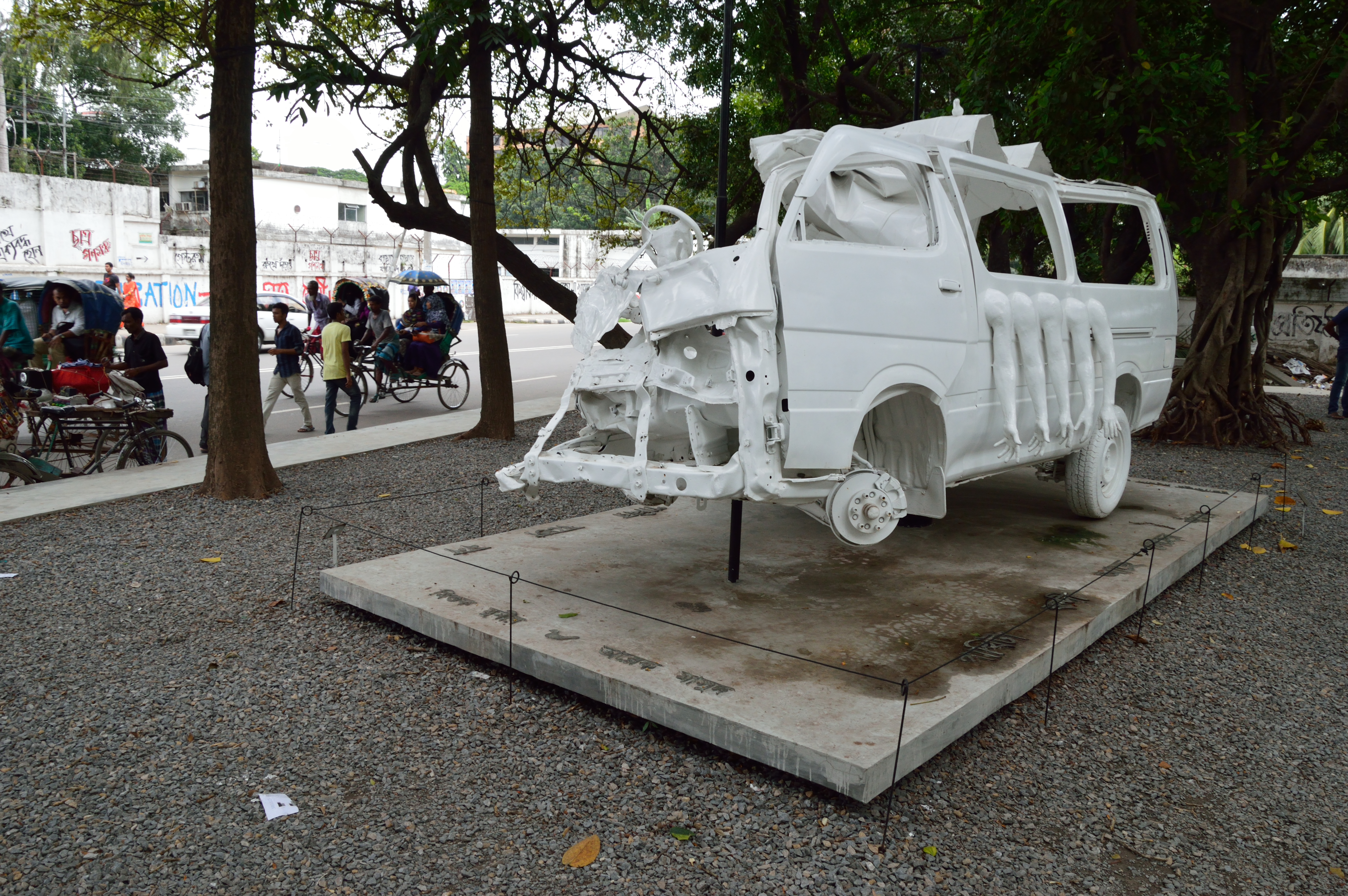 Photographed in Dhaka, Bangladesh.